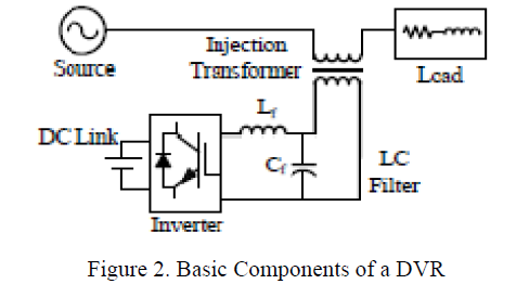 dvr yaa